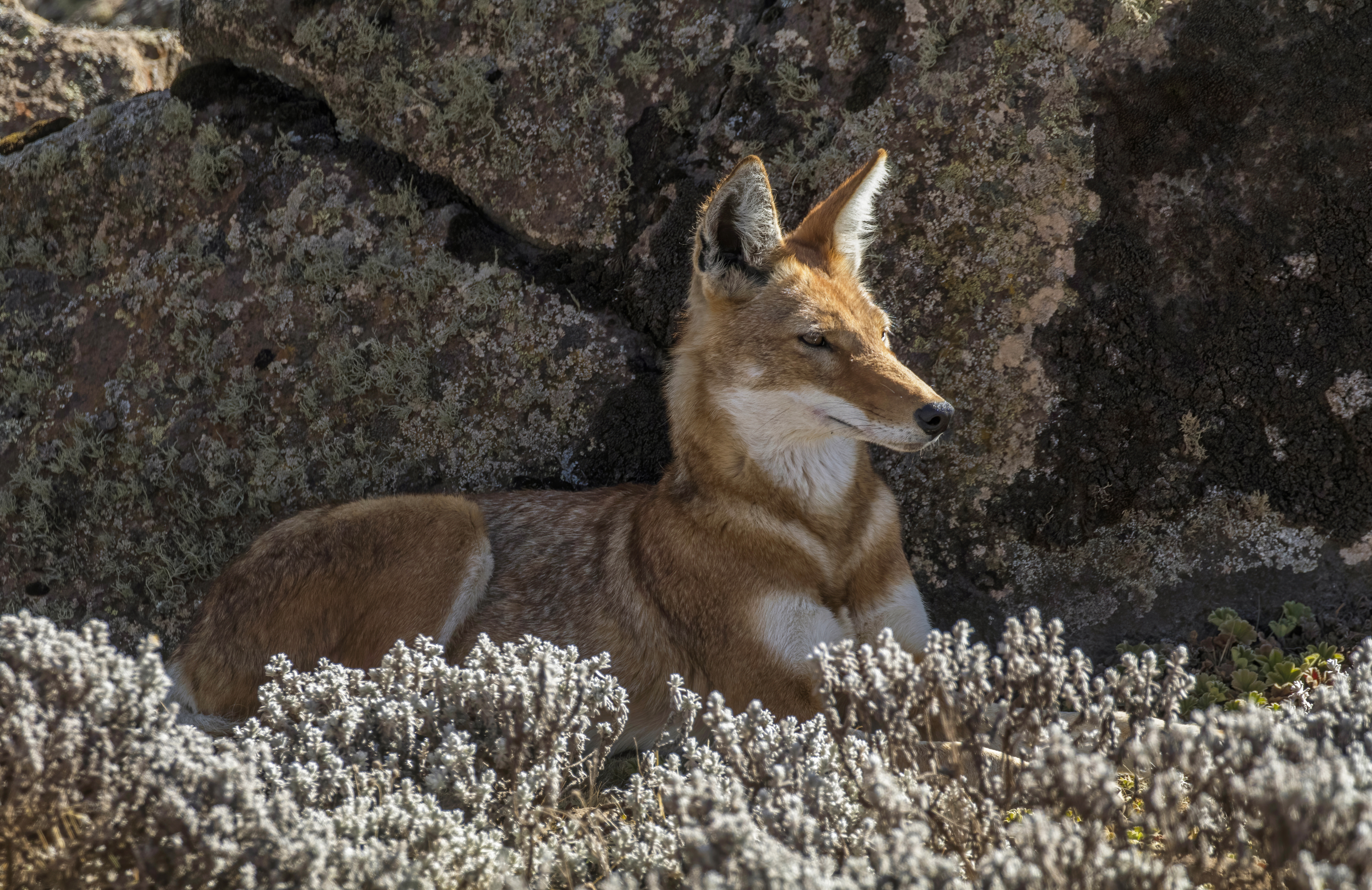 Ethiopian wolf (Canis simensis citernii) with Helichrysum citrispinum, Sanetti Plateau, Ethiopia